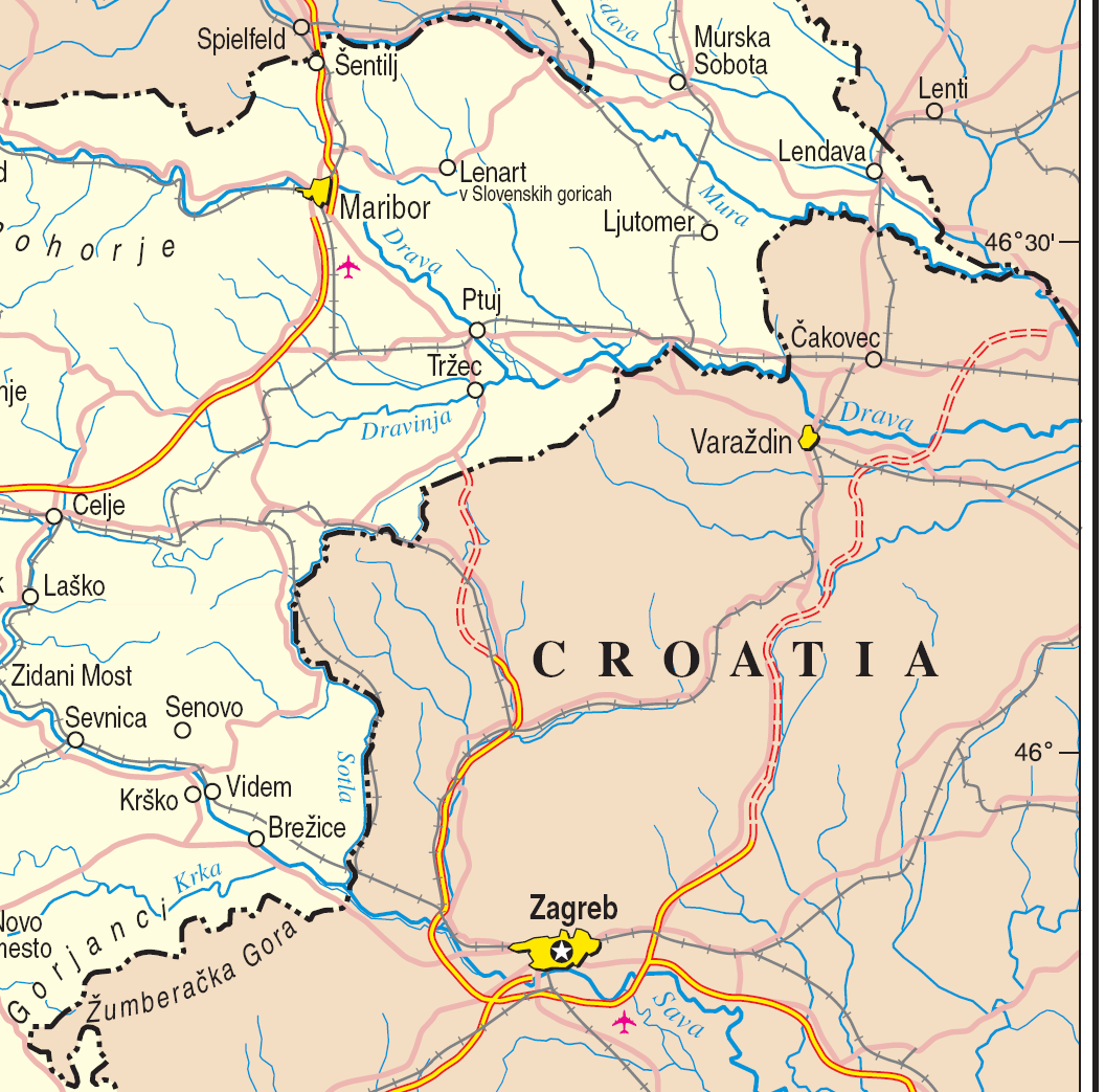 Map of the border region between Croatia and Slovenia